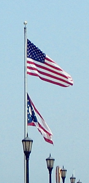 Crop of :Image:Pbalson 20060527 IMG 3632.JPG to allow the flags to be clearly distinguishable in thumbnail.